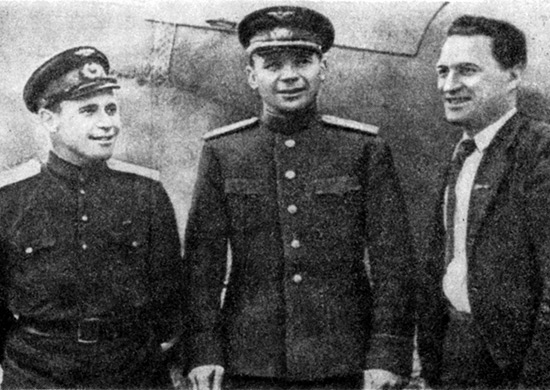 Members of the famous aviation family, which left a noticeable mark in the history of aviation of the USSR. Valentin, Vladimir and Konstantin Kokkinaki